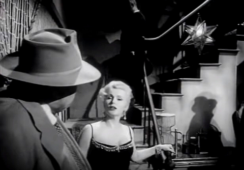 Screenshot of Zsa Zsa Gabor from the trailer for the film Touch of Evil